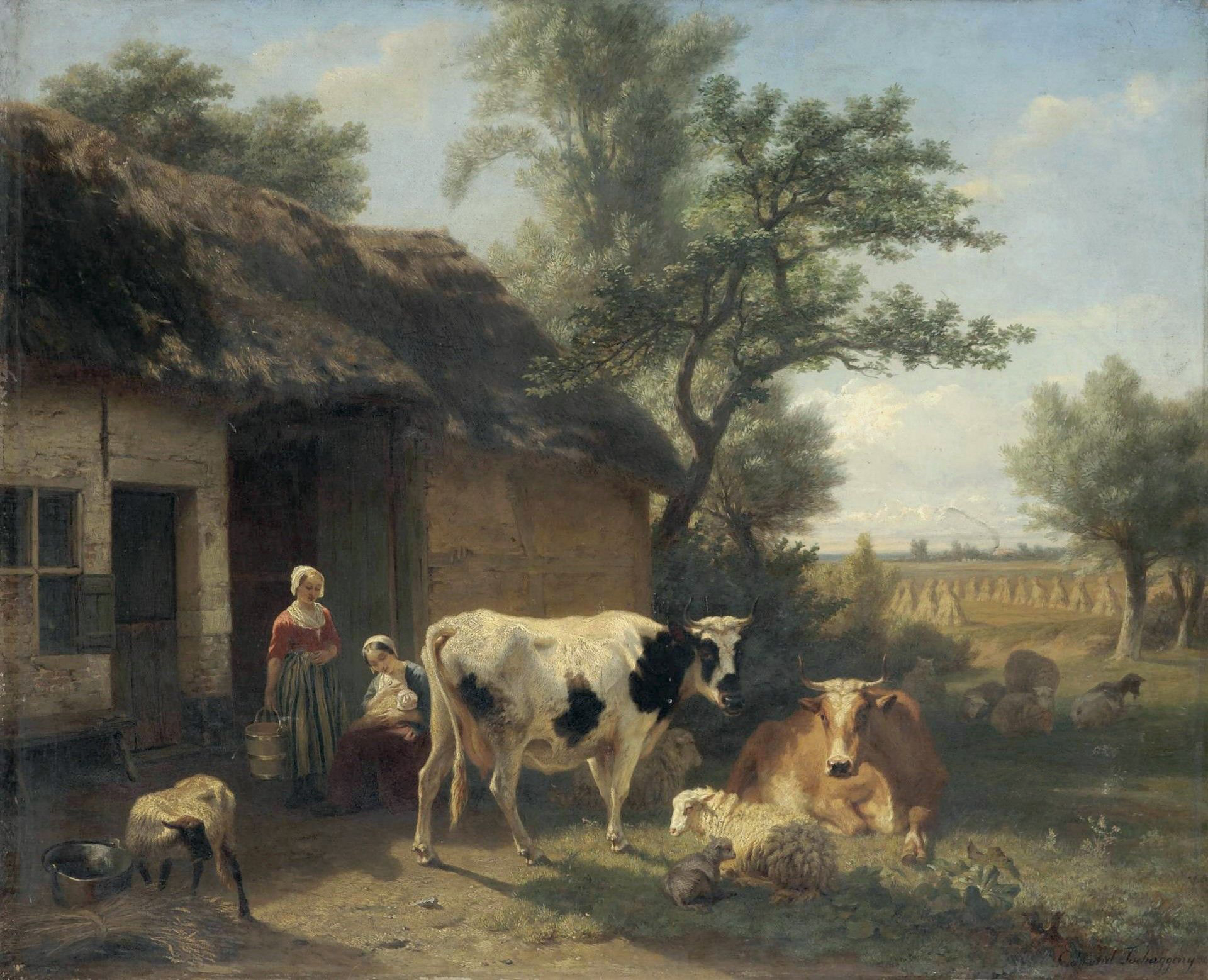 Peasant yard